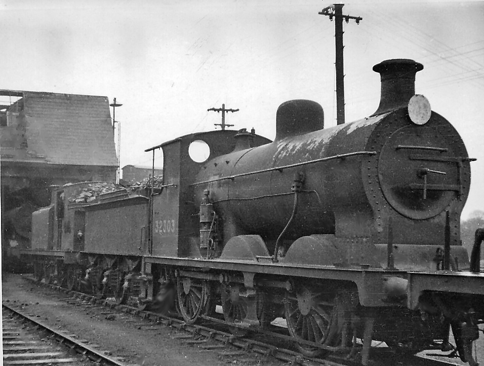 Brighton line 0-6-0 at Three Bridges Locomotive Depot. View SW on a wintry afternoon. Three Bridges was a small Depot on the ex-LB&SCR London - Brighton main line, providing, since the electrification of 1933, locomotives for fregiht and for the branch to East Grinstead: as BR code 75E, in 1949 it had 34 locomotives:- 7 2-6-0, 13 0-6-0, 5 4-4-2T and 9 0-6-2T. This is ex-LB&SCR Marsh C3 class No. 32303 (built 6/1906, withdrawn9/51).